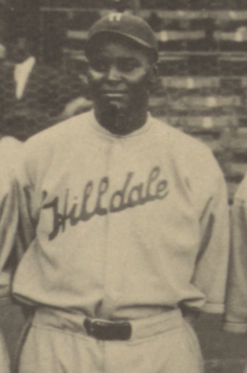 Hilldale player Biz Mackey at the 1924 Colored World Series. LOC states here that there are no restrictions on use of this image, therefore it is PD. This file has been extracted from another file: 1924 Negro League World Series.jpg